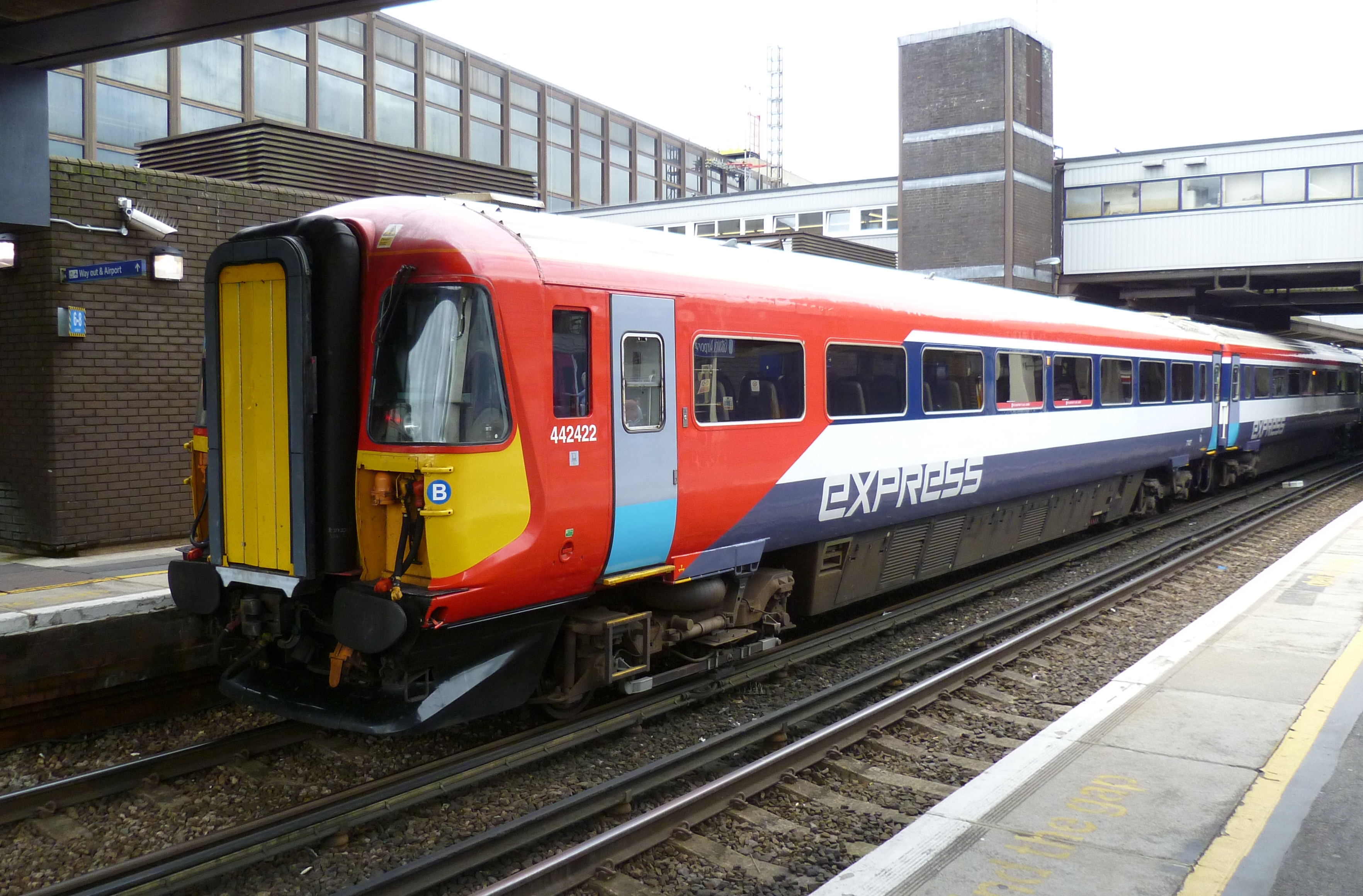 Gatwick Express unit 442422 at Gatwick Airport station having just arrived from Victoria.